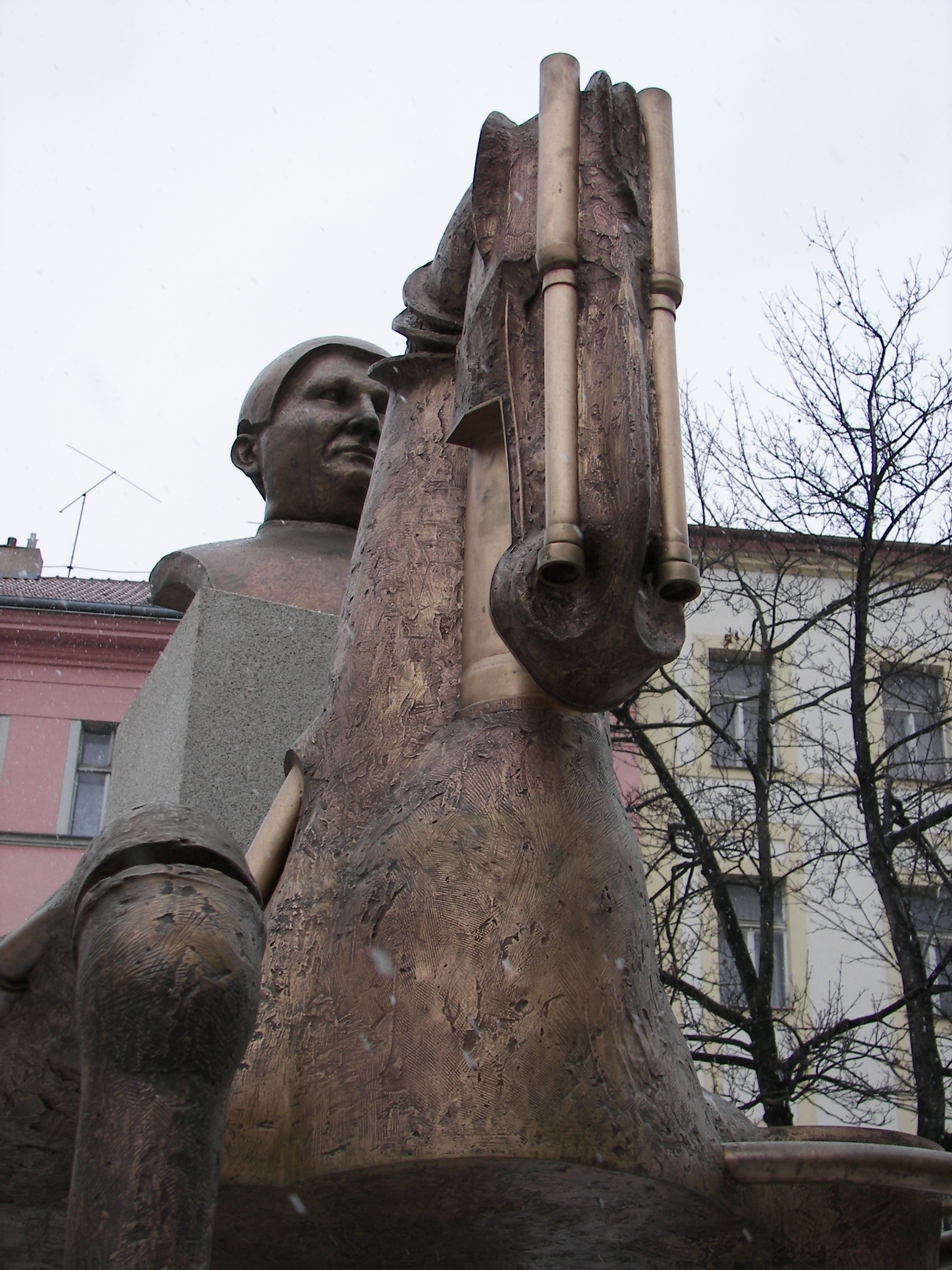 Statute of Jaroslav Hasek from Karel Nepraš (horse-pubdesk) and his daughter (head)